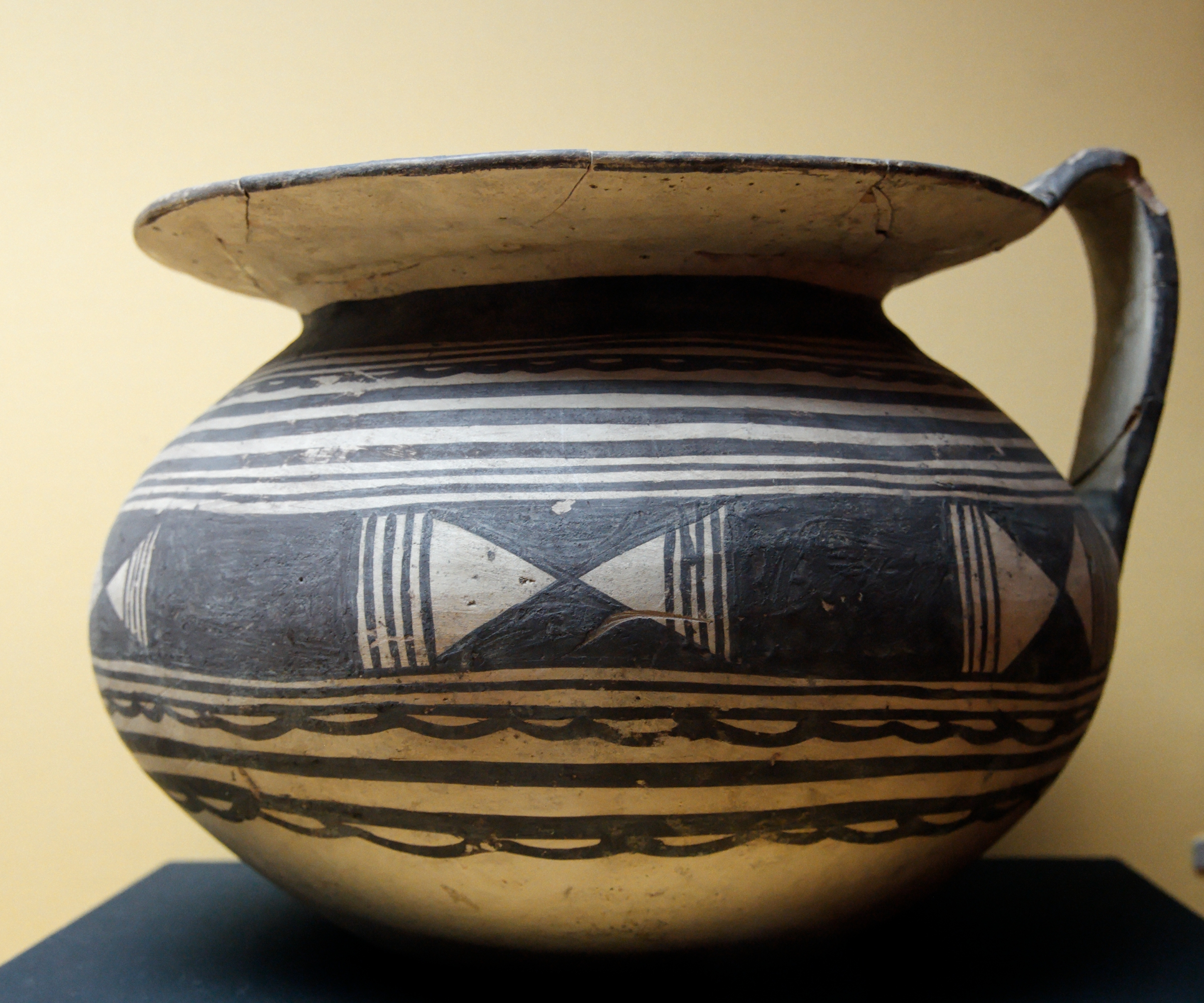 Jug with double triangle decoration. Terracotta, Subgeometric style (Daunian II), . From Daunia, Italy.